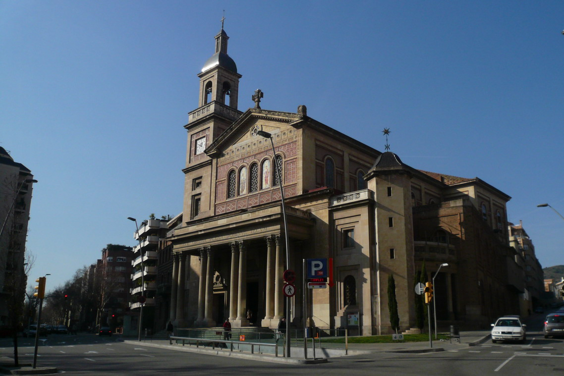 Santa Maria de la Bonanova church, Barcelona